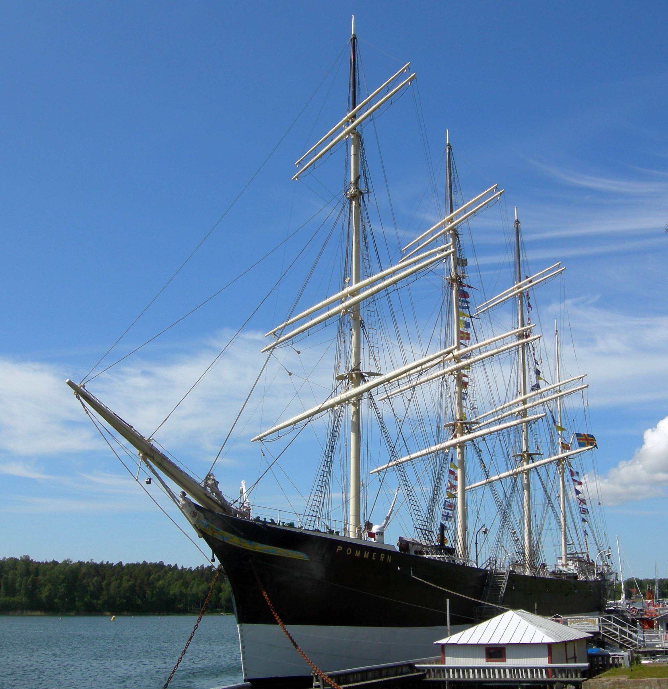 Museum ship Pommern docked at Mariehamn, Åland, Finland.